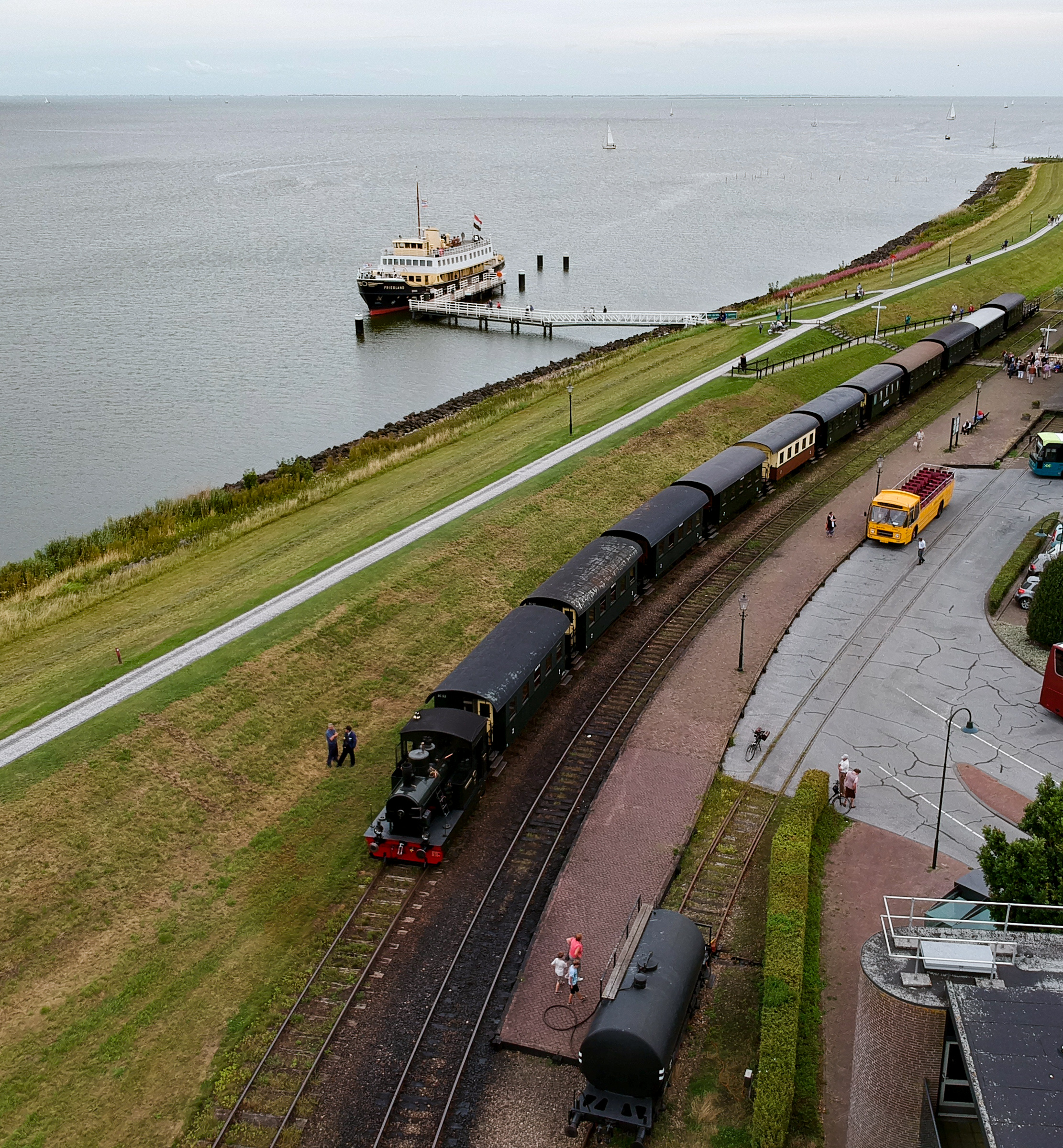 Museumstoomtram Hoorn Medemblik and Friesland ship in Medemblik from 24m AGL